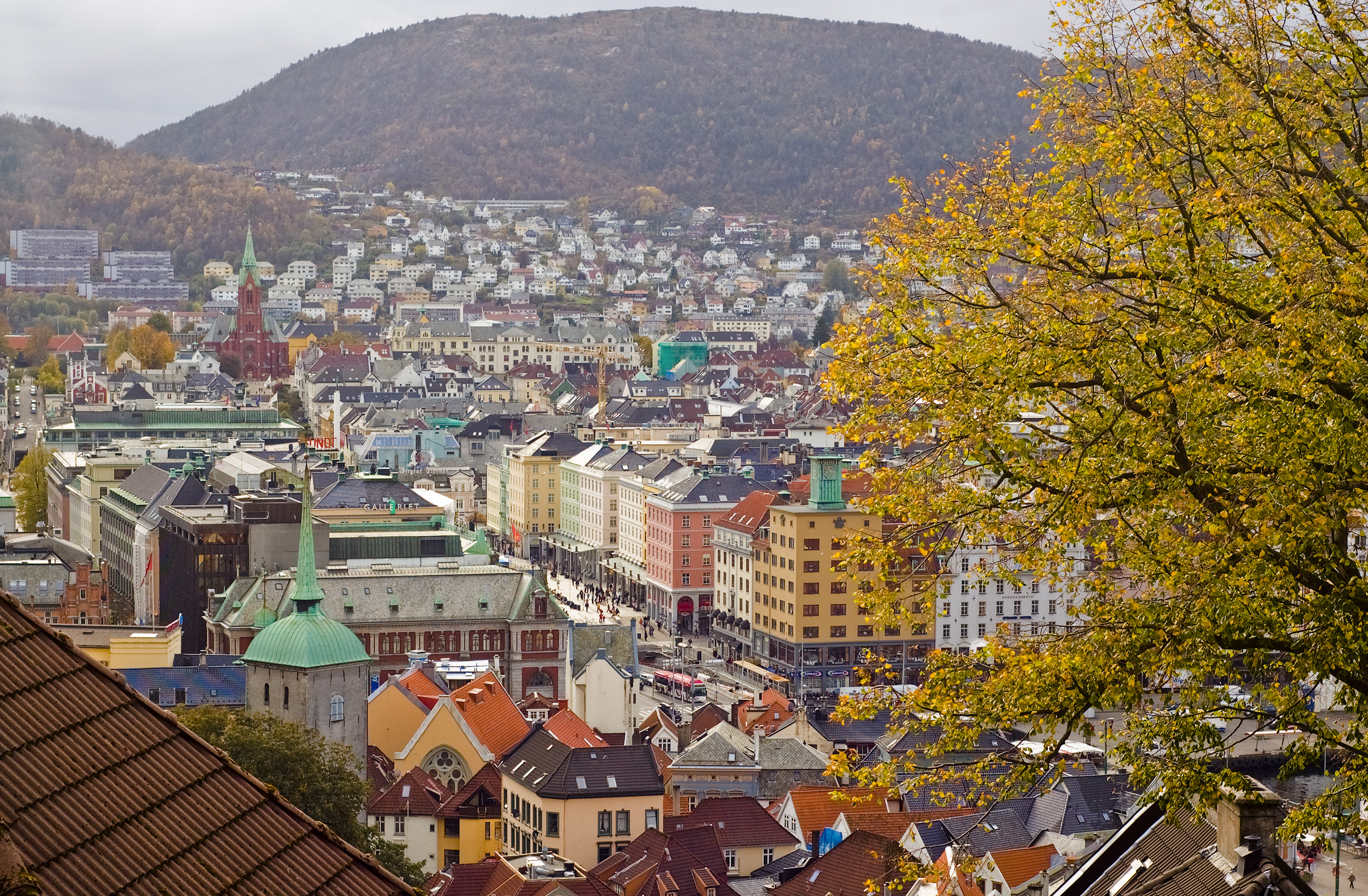 City centre of Bergen, Norway.